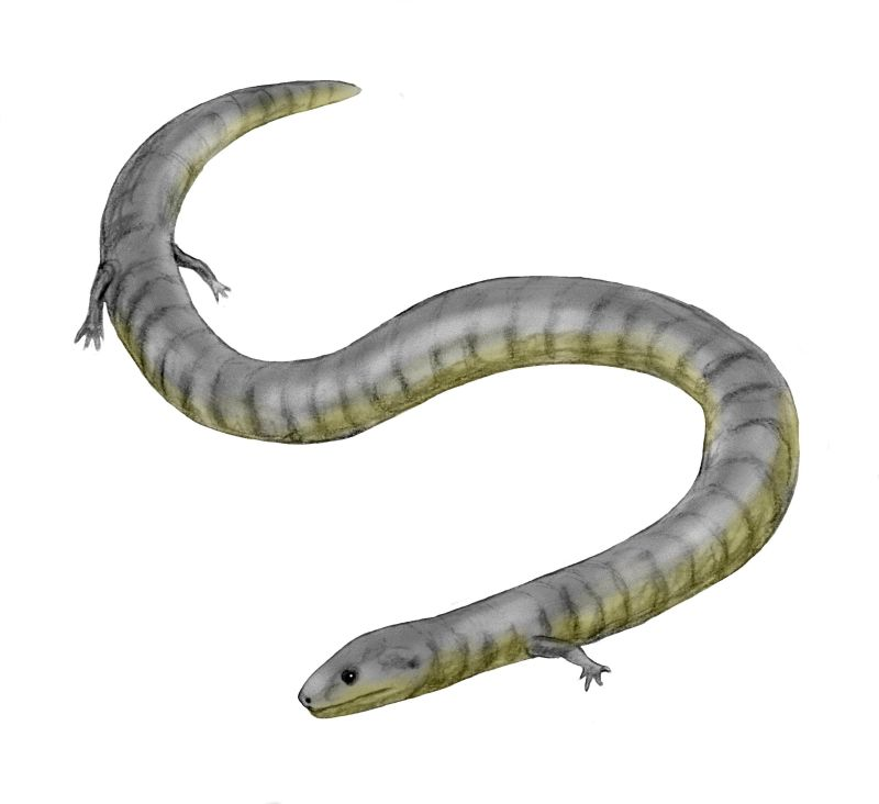 Eocaecilia micropodia, an early caecilian from the Lower Jurassic of Arizona, pencil drawing